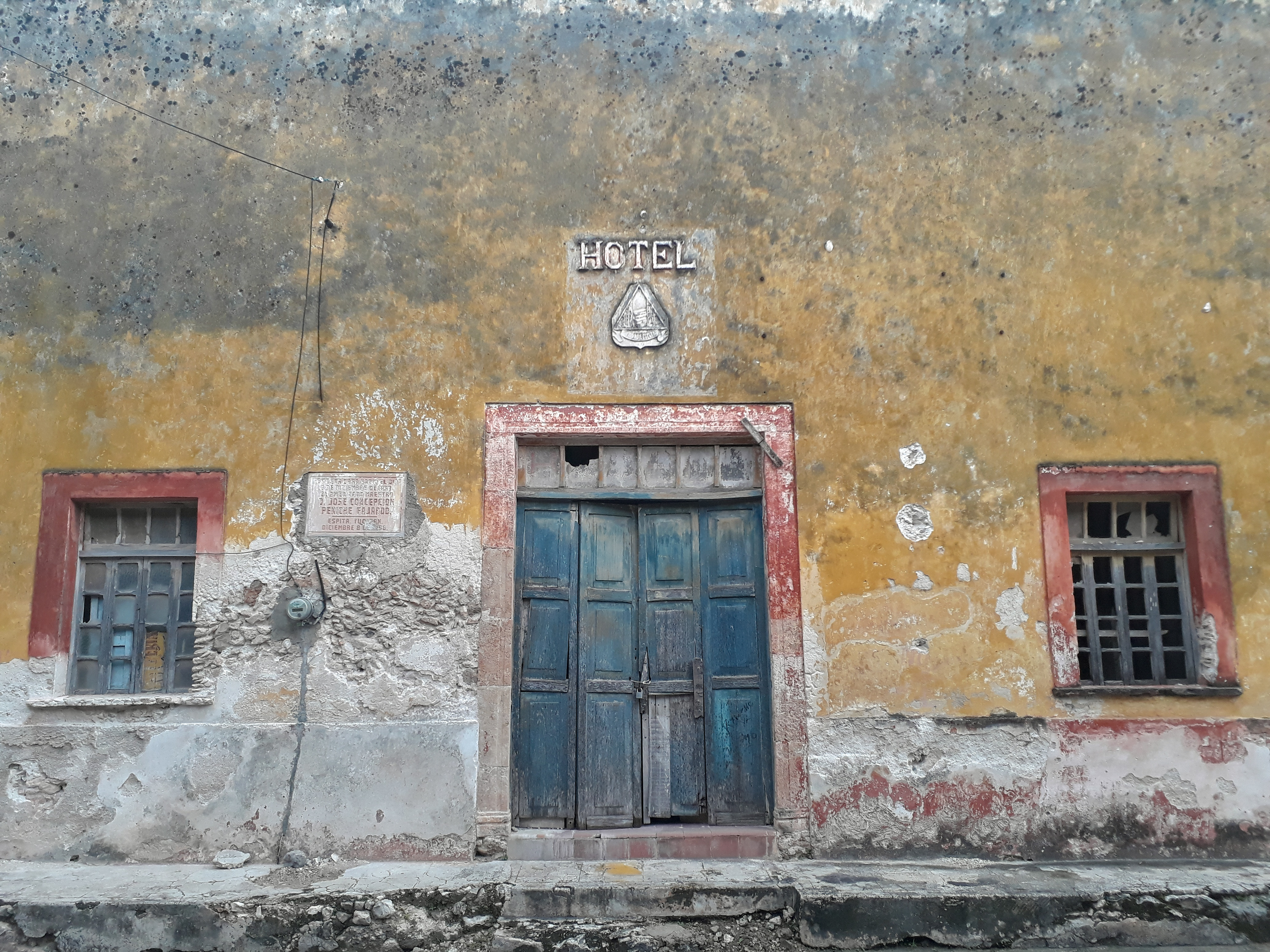 Hotel in Espita